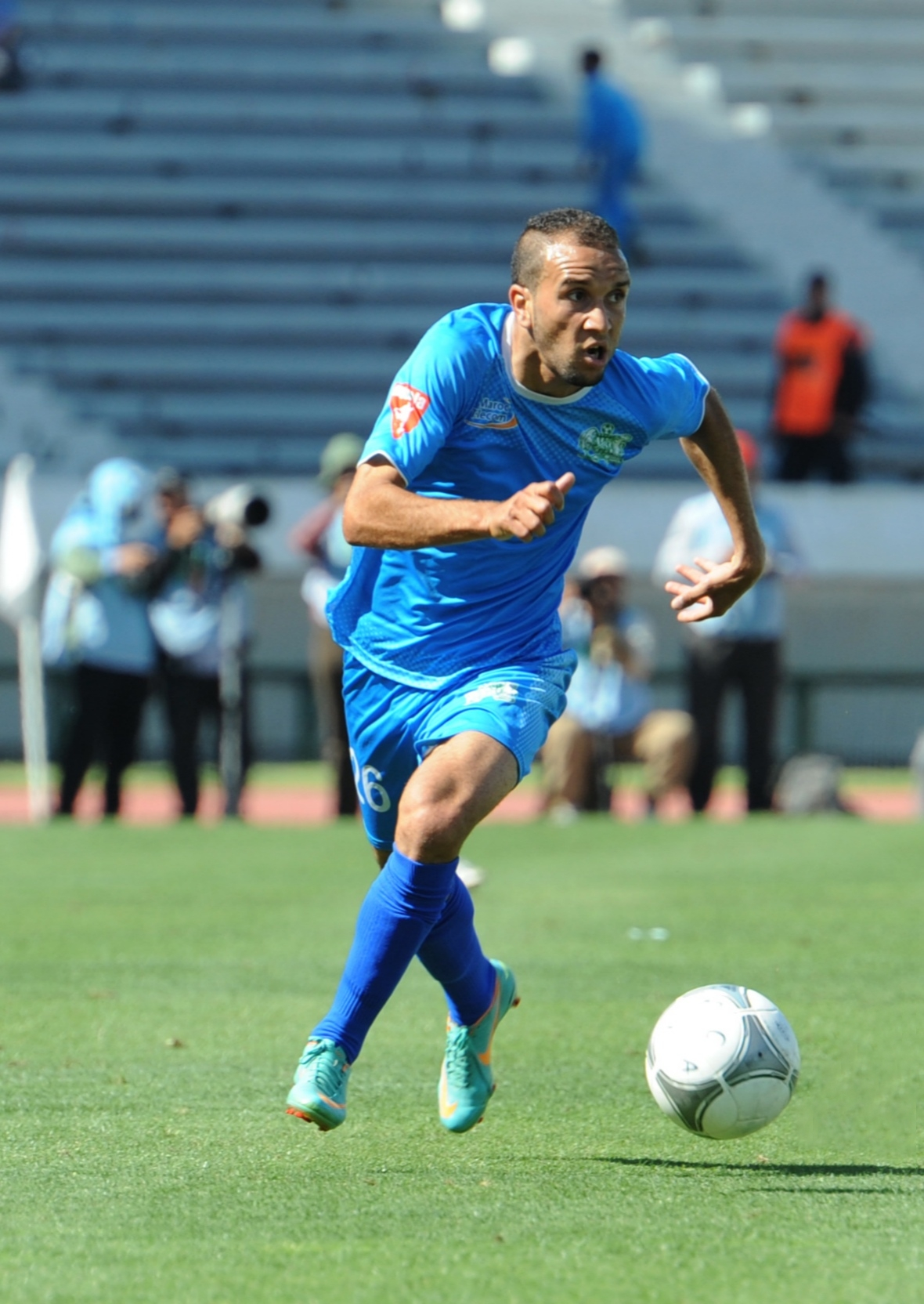 Depicted person: Zakaria Hadraf – Moroccan association football player